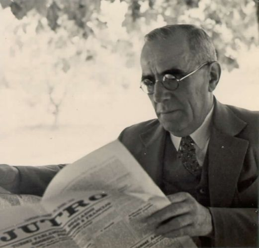 Avgust Škabar , Slovene officer